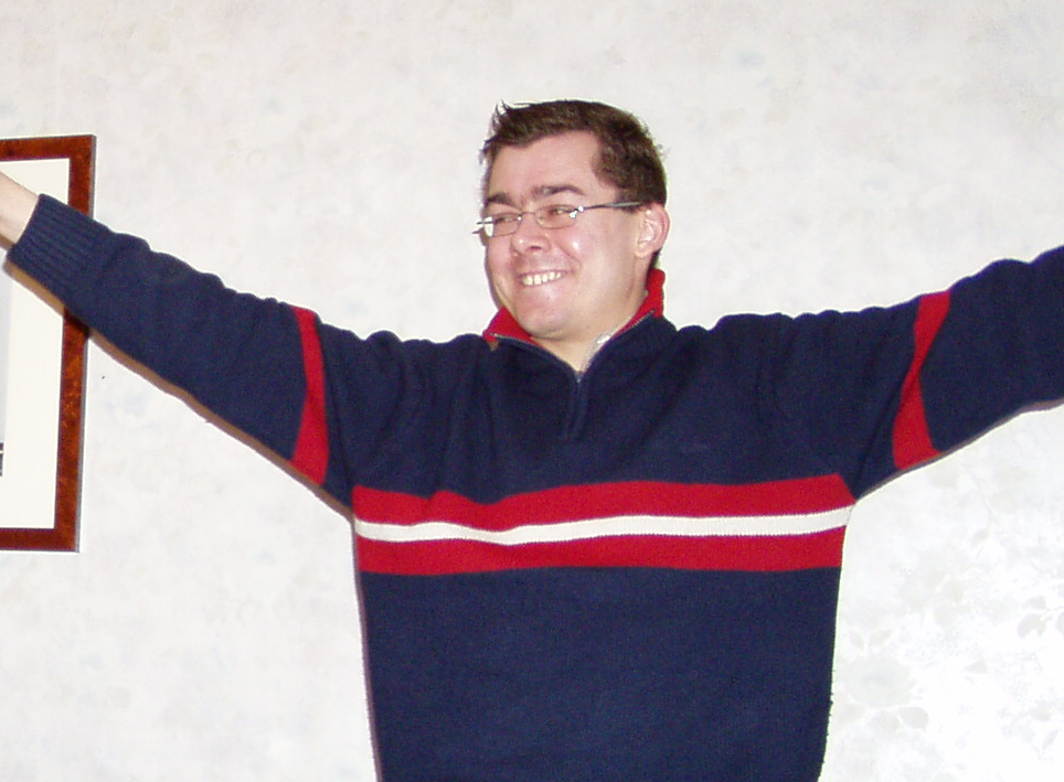 Jaap de Wreede in Utrecht on 25 March 2006 (cropped)